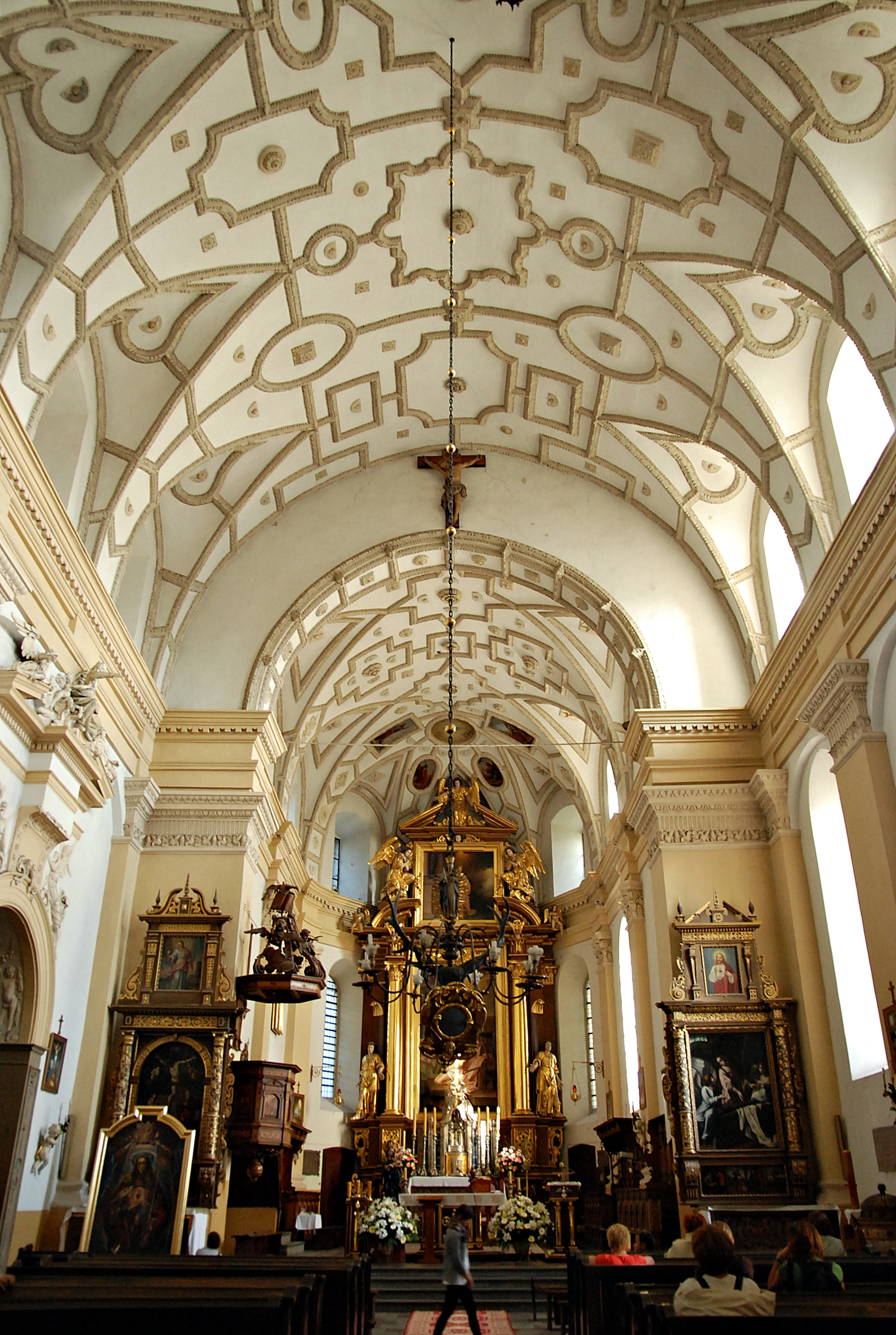 Church of St. John Baptist and St. Bartholomew in Kazimierz Dolny